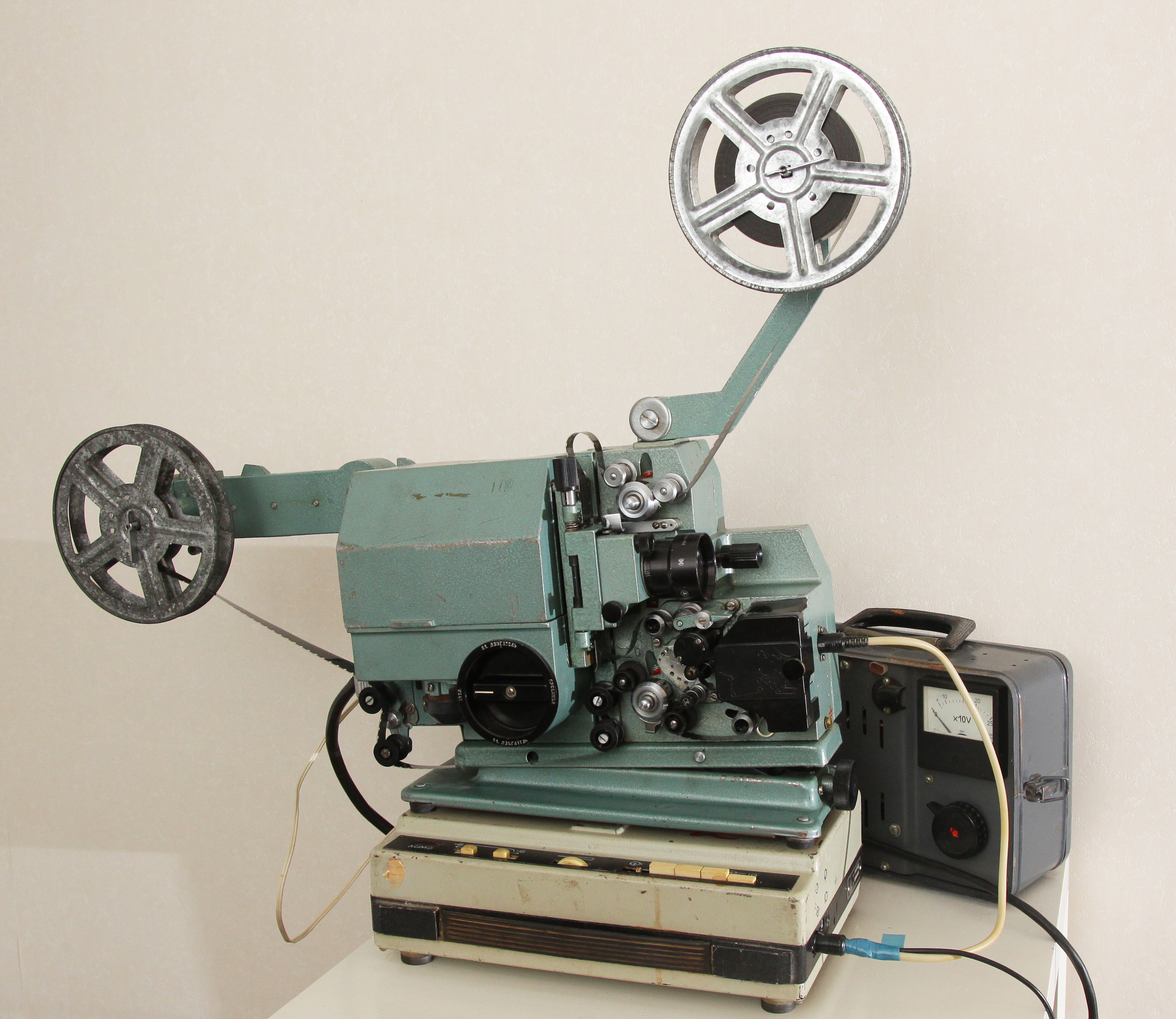 Soviet 16-mm movie projector 'Ukraina-5' with sound amplifier 6U-34 for optical and magnetic soundtrack, and power supply.